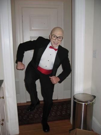 A Halloween costume based on the Six Flags mascot Mr. Six.